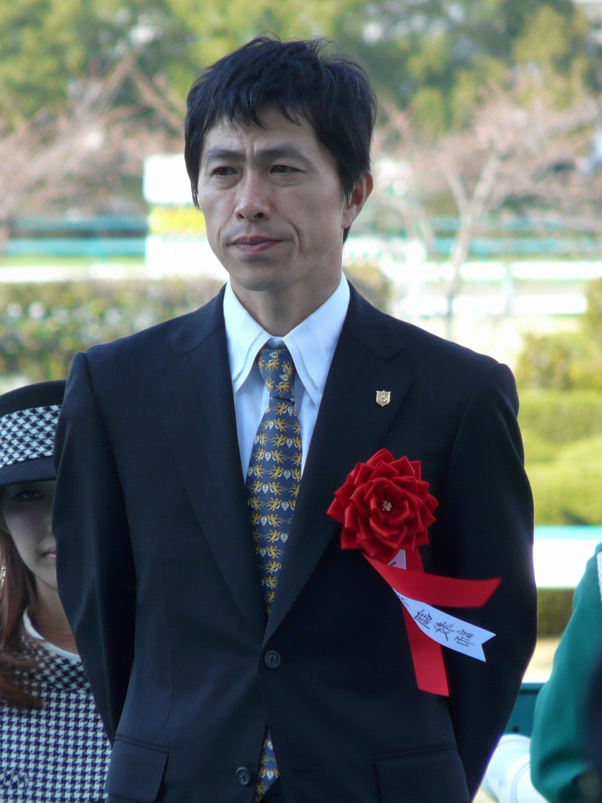 Kenji-Nonaka20100321